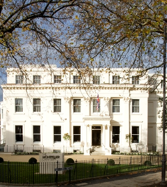 Centrally located in , UK, The Montpellier Chapter is the first hotel under Chapter Hotels, the new British hotel brand by Swire Hotels.